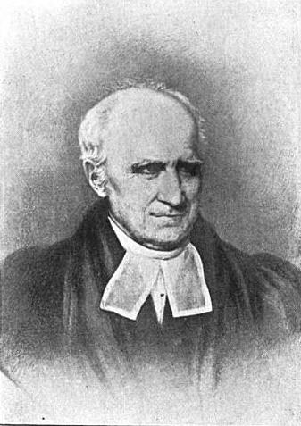 Walter Dulaney Addison, 12th Chaplain of the United States Senate, 1810-1811. From the book (published 1895): One Hunded Years Ago: The Life and Times of Walter Dulaney Addison. NOTE: Middle name is misspelled in photo title. Should be Dulaney.